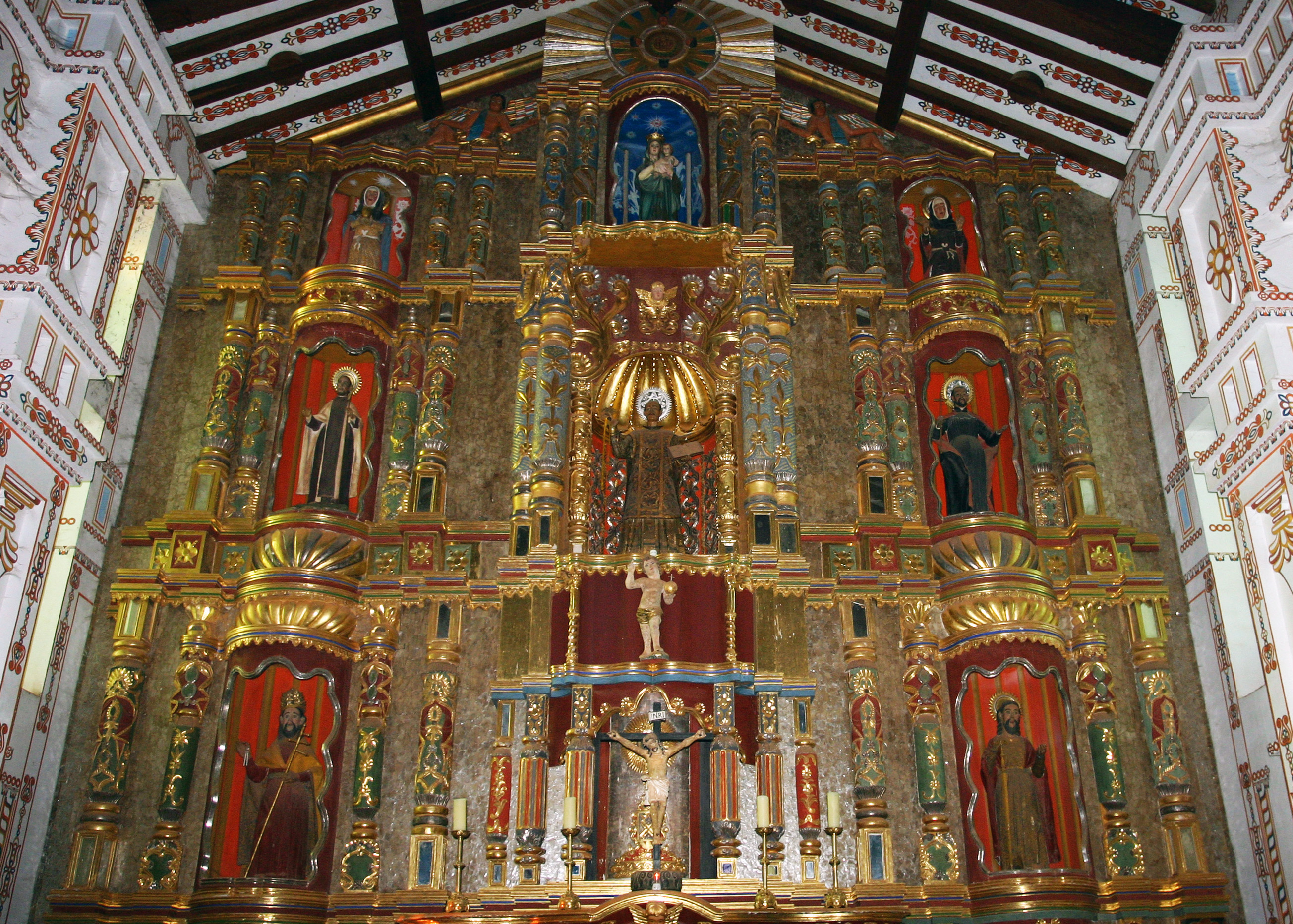 Reredos, cathedral, San Ignacio de Velasco, Bolivia